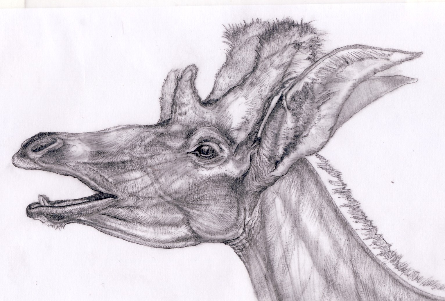 Head of Shansitherium. Based on fossil skeleton at Houston Museum of Natural Science Hall of Paleontology.